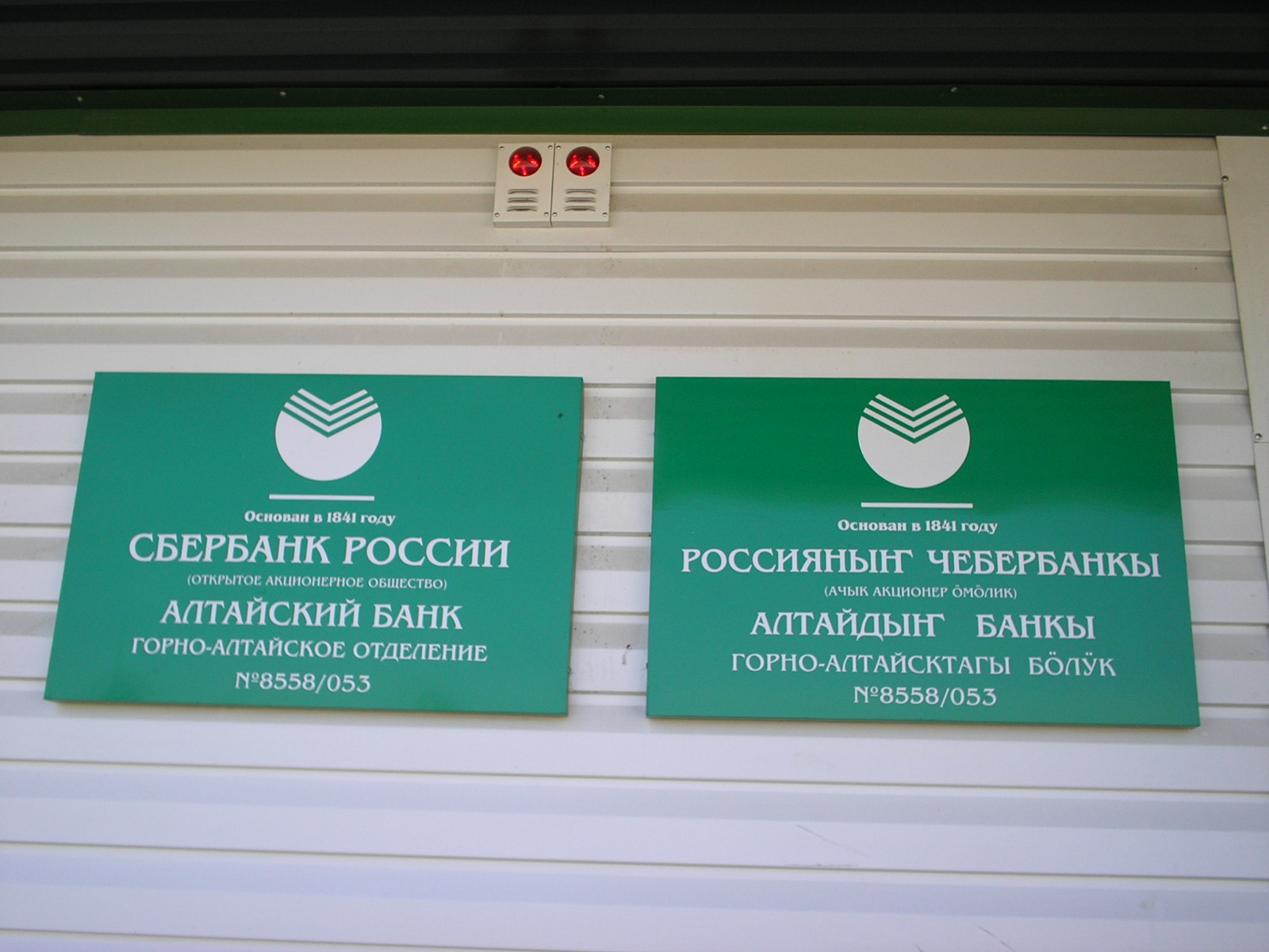 Sign of Sberbank in Ust-Koksa in the Russian and Altay languages